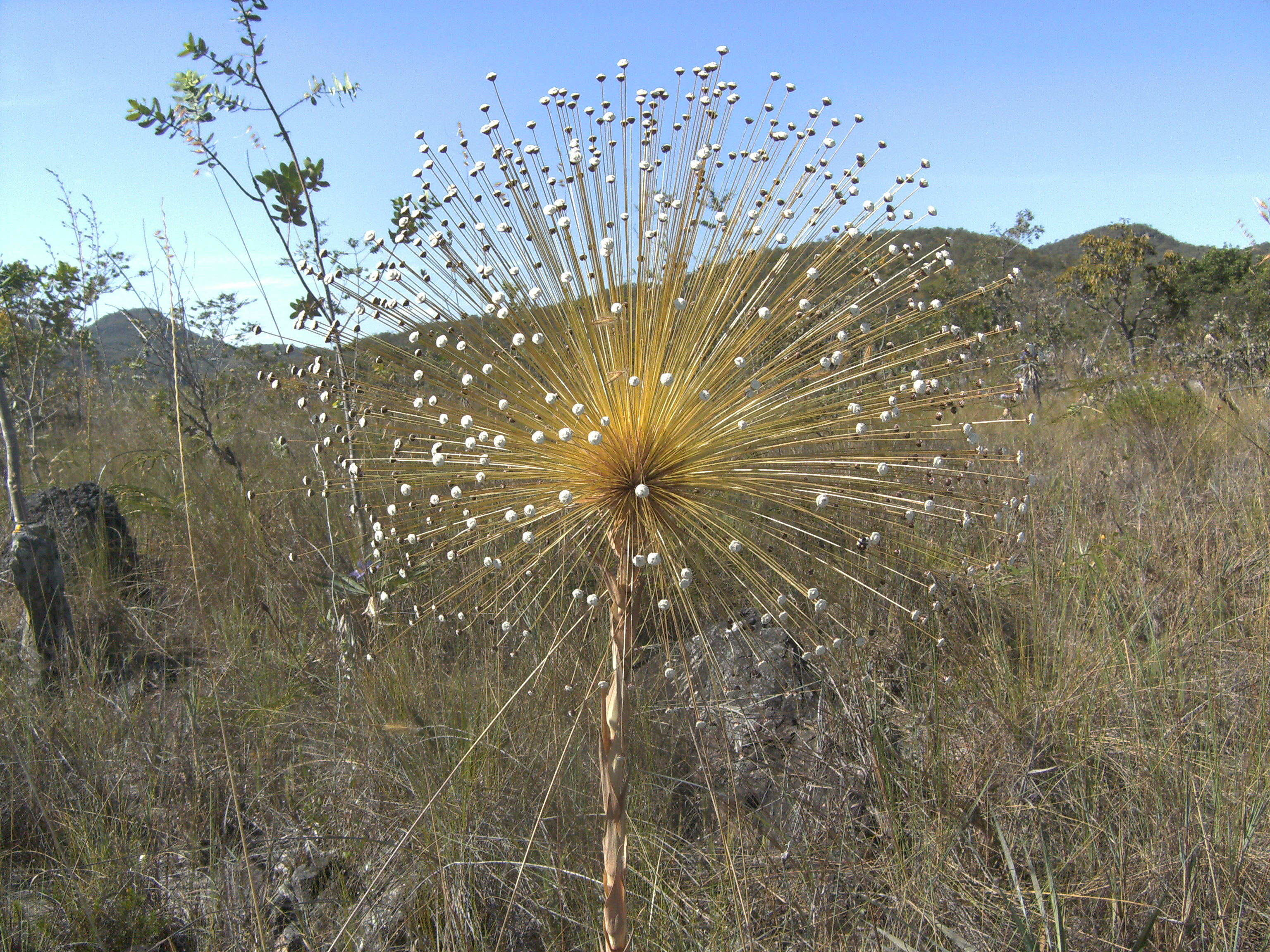 Paepalanthus, family Eriocaulaceae. Native to cerrado, Brazil. Popular: "Chuveirinho"